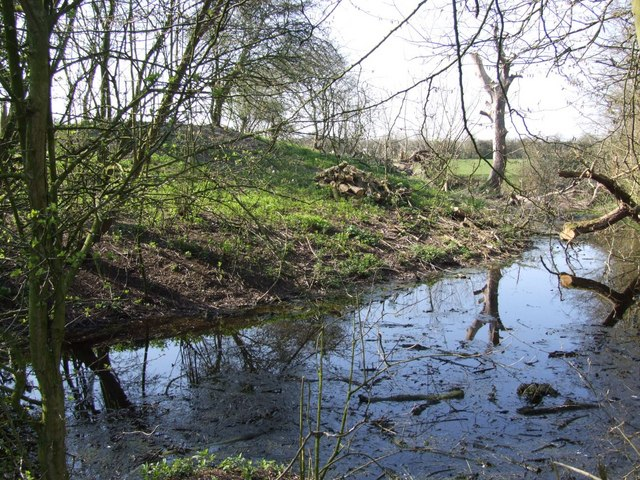 Castle Hill, Motte and Bailey A National Trust Site, Darrow Wood